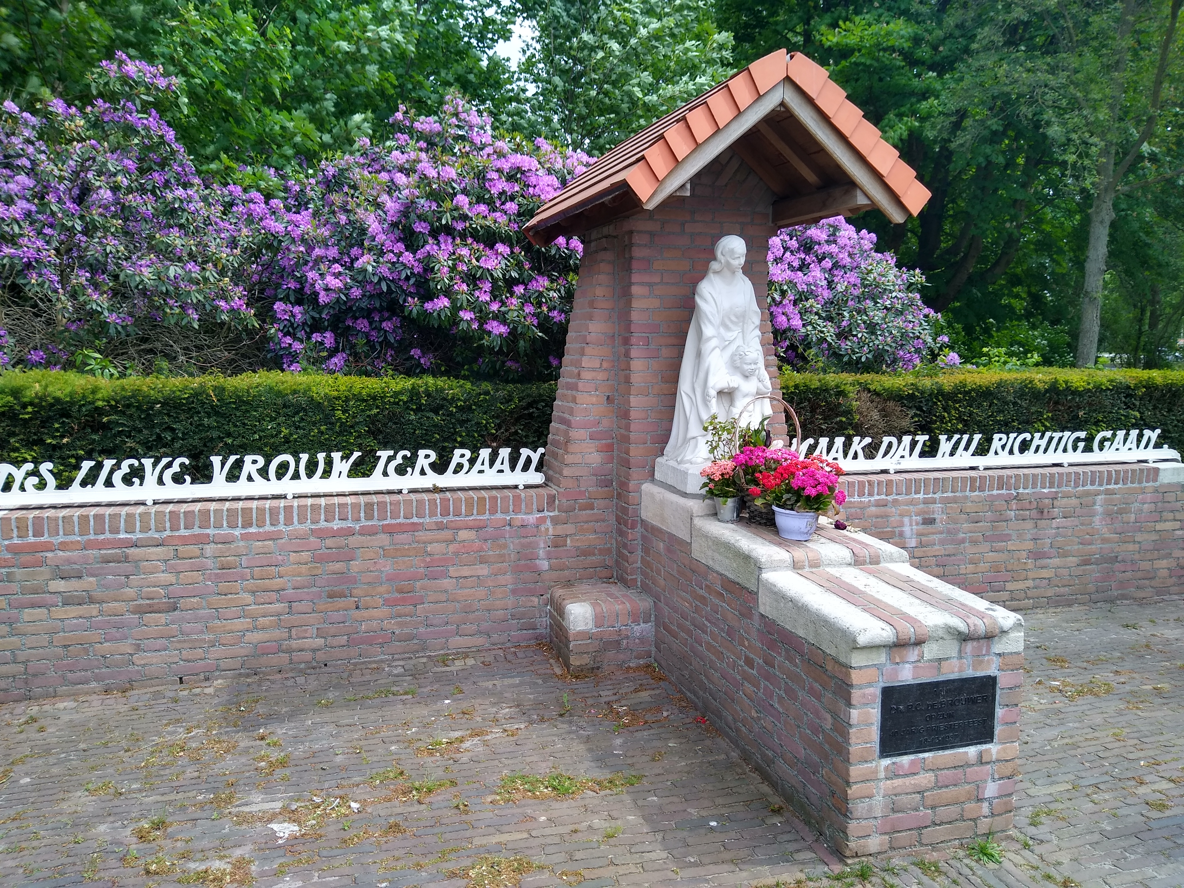 Maria Ter Baan, chapel in Tilburg, Netherlands, in honour of P.C. de Brouwer